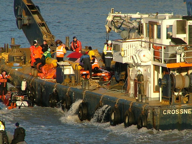 Boat with Whale on the Thames This 18ft northern bottle-nosed whale, which can be seen on the deck of the boat, died on 21.1.2006 despite a massive rescue attempt. This was the first time this species has been spotted on the Thames since records begun. The picture was taken from Vauxhall Bridge